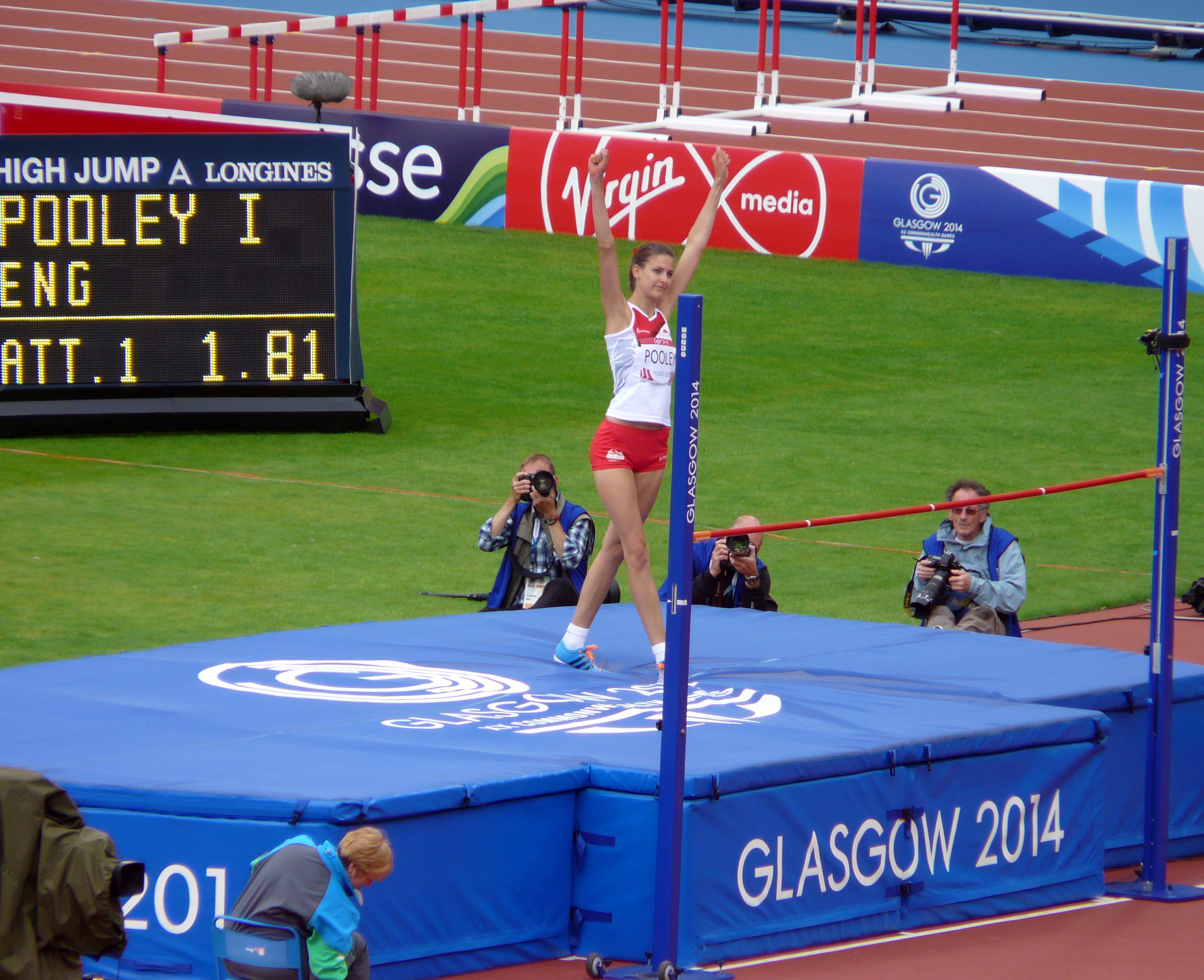 Hampden Park Glasgow Commonwealth Games Day 7 Athletics Morning Session Wednesday 30th July 2014. Isobel Pooley